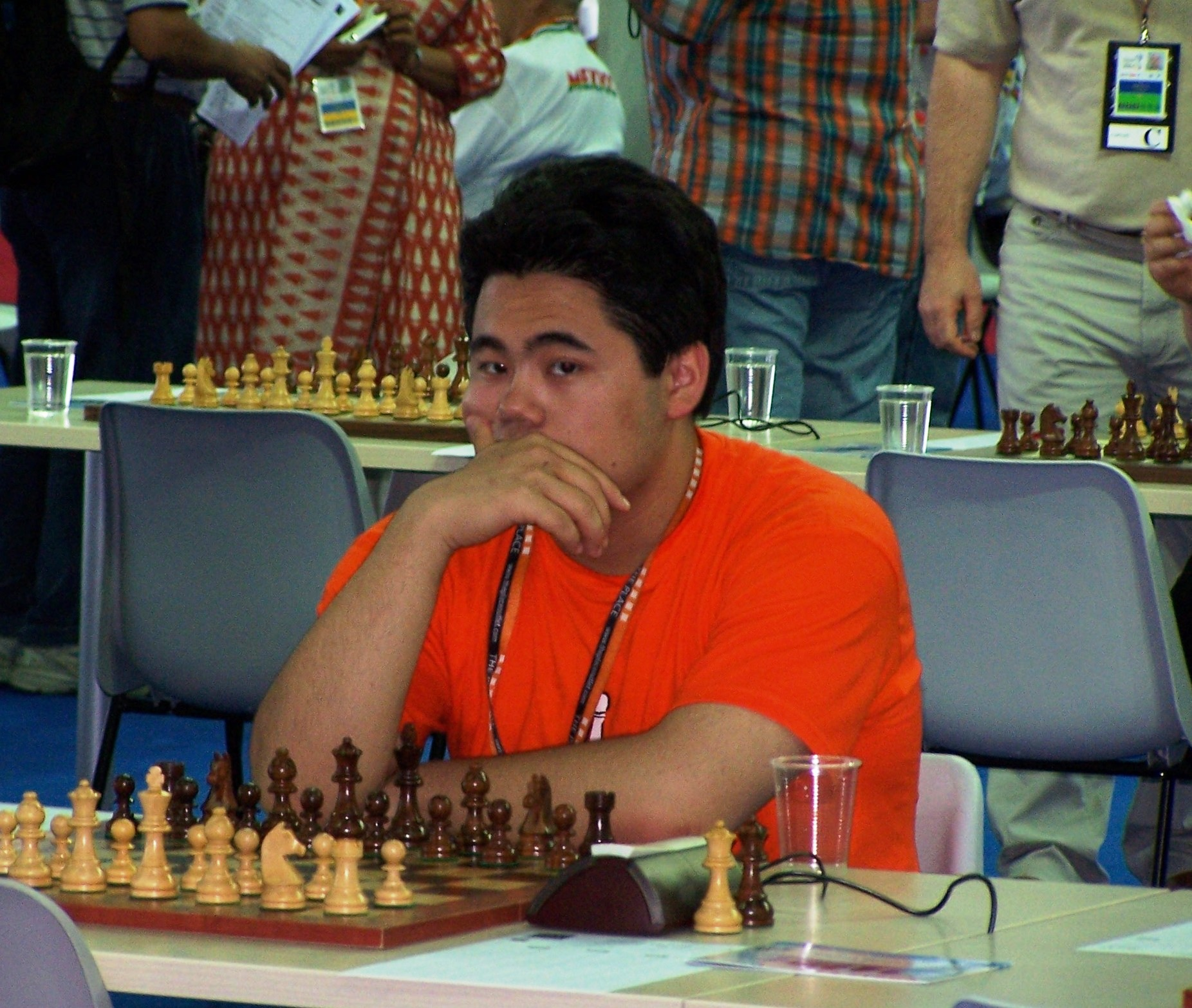 Photo of Grandmaster Hikaru Nakamura at the Turin 2006 olympiads